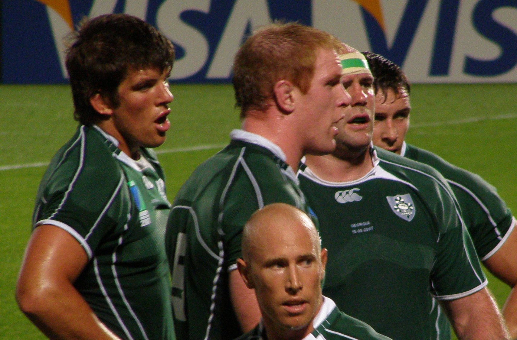 Ireland vs Georgia, Rugby World Cup 2007. Stade Chaban Delmas, Bordeaux, France. The two locks Donncha O'Callaghan Paul O'Connell, the scrum half Peter Stringer... Little big man...